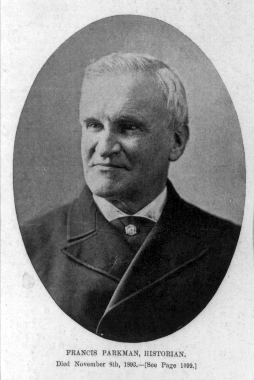 Francis Parkman (1823 – 1893), an American historian